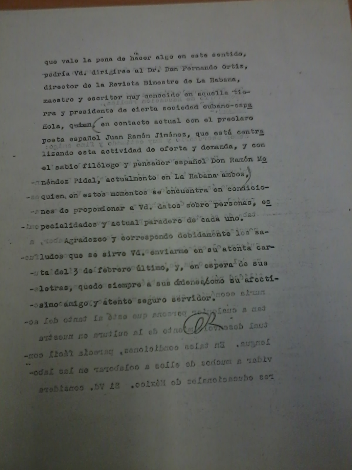 Document regarding Alfonso Reyes Ochoa (Spanish republican exile in Mexico) (retrieved from the historical archive of El Colegio de México, A.C.). Documentary research about the history of the creation of the institution and the Spanish exiles in Mexico during the Spanish civil war. Documentary collections consulted: Alfonso Reyes (box 6, files 7 and 10) and Daniel Cosío Villegas (box 4, file 12; box 16, file 13).